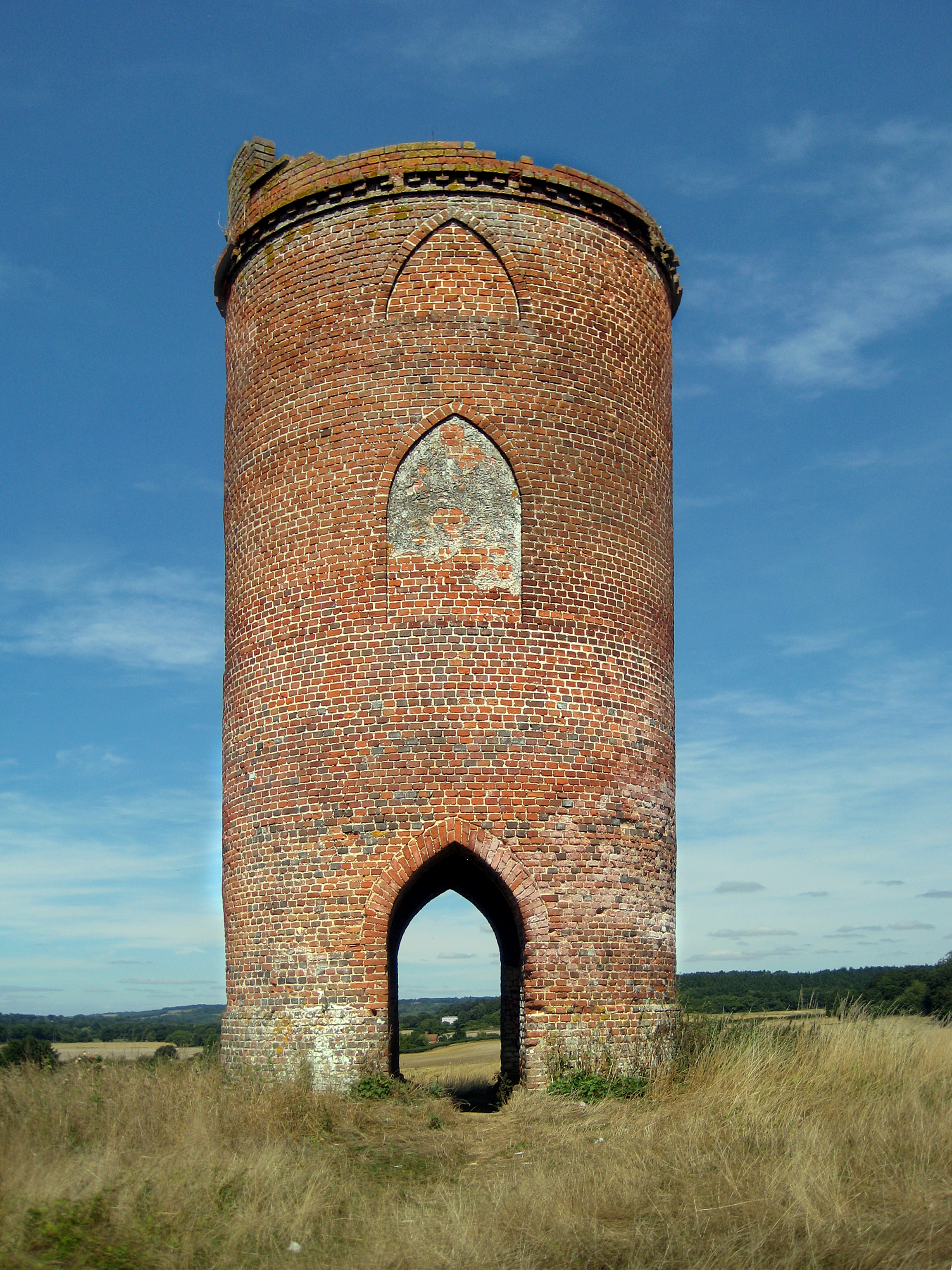 View from the south of Wilder's Folly (also known as Nunhide Tower), on Nunhide Hill, Sulham, Berkshire. Built by Henry Wilder in 1769. Sulham House, where Henry Wilder lived, is the white building in the exact centre of the arch.